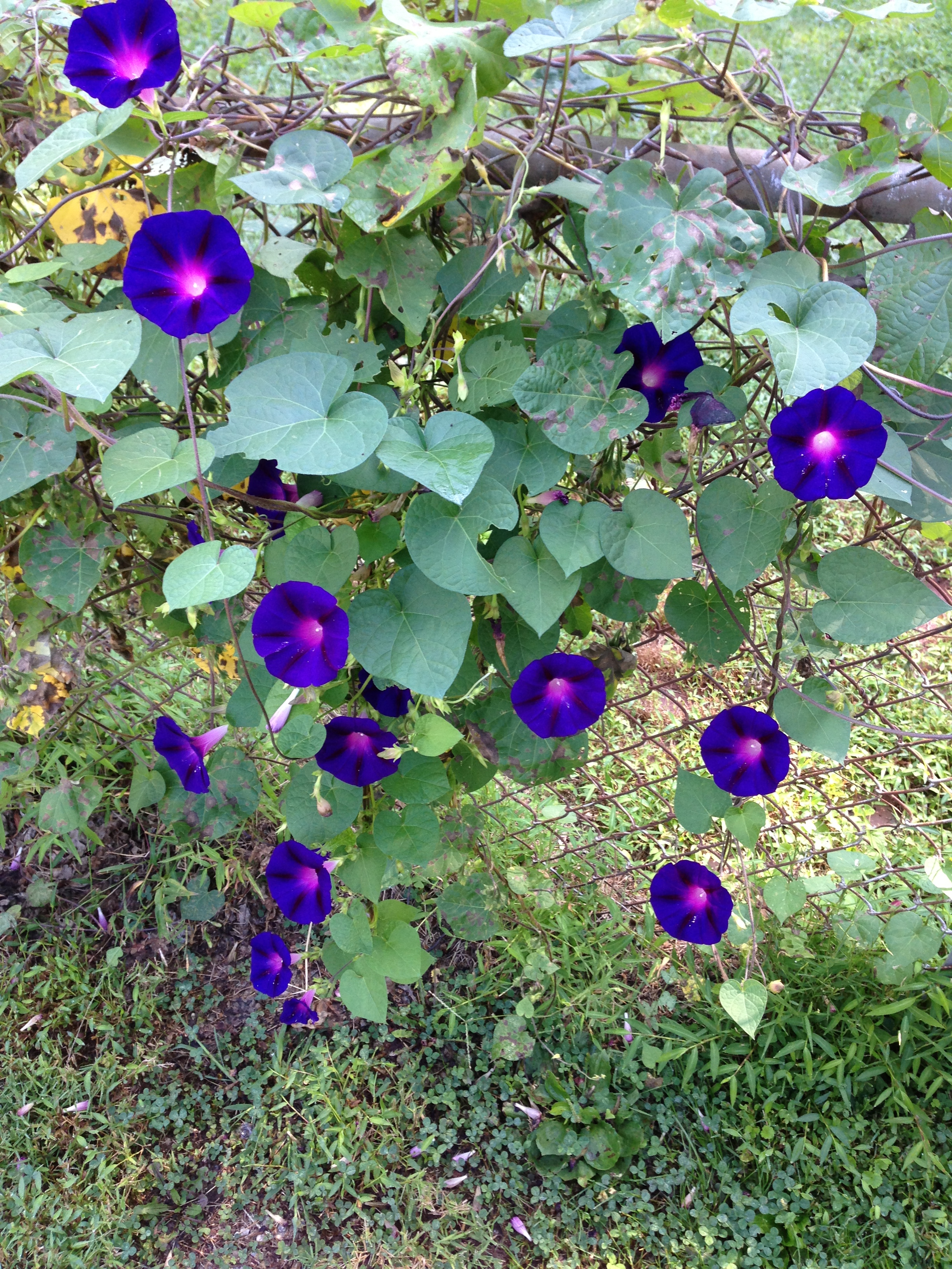 Morning Glory in Ewing, New Jersey